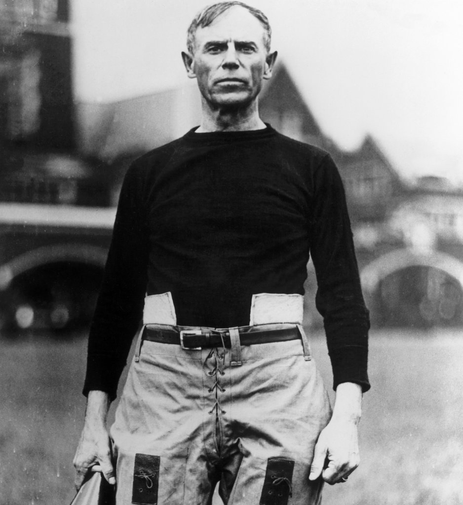 John Heisman standing on Bowman Field, in front of Tillman Hall, on the Clemson University Campus.